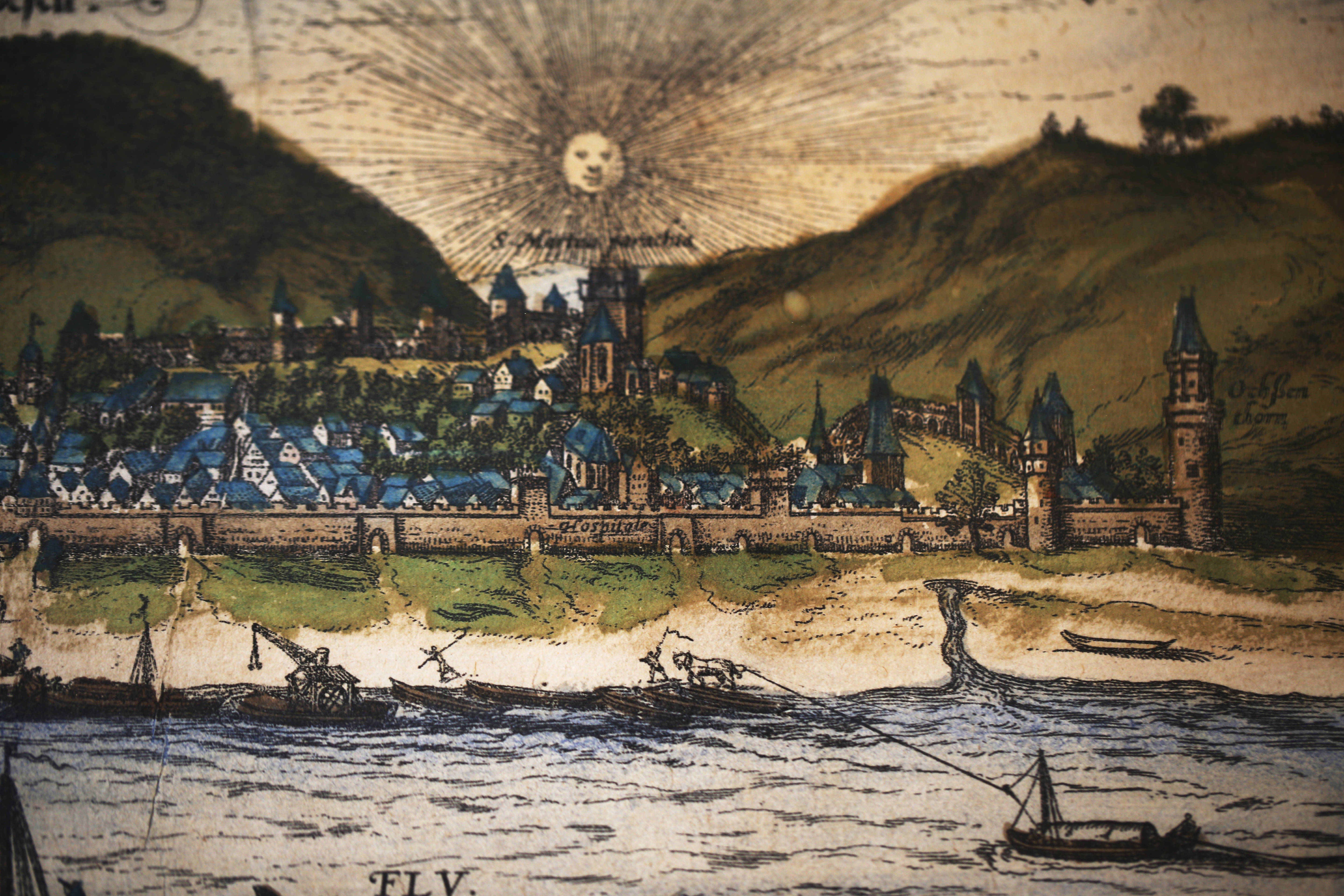 Braun & Hogenberg, 16th-century of Oberwesel